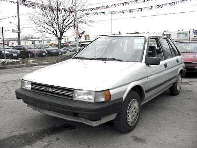 1989 Toyota Tercel